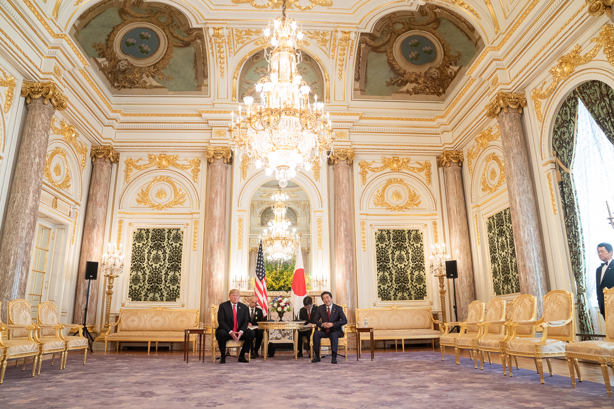 President Donald J. Trump participates in a restricted bilateral meeting with Japan’s Prime Minister Shinzo Abe Monday, May 27, 2019, at the Akasaka Palace in Tokyo. (Official White House Photo by Shealah Craighead)